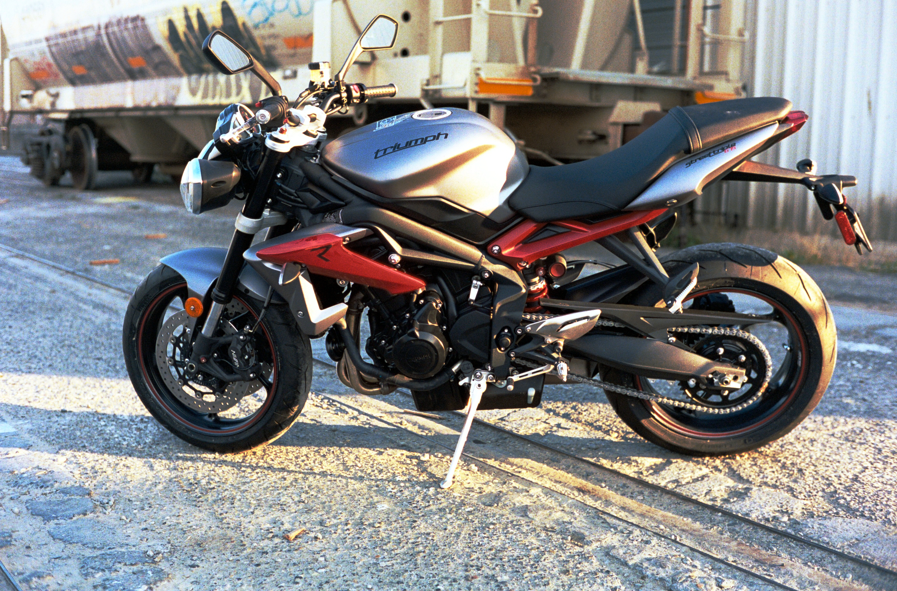 2014 Triumph Street Triple R, matte graphite. Completely stock. Near Salmon Bay Sand & Gravel Co., Ballard, Seattle Washington, US.